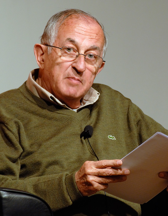 Juan Goytisolo, Instituto Cervantes Berlin Mayo 2008